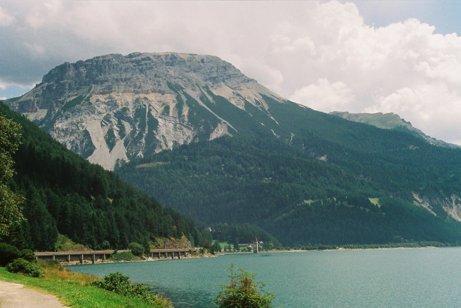 mountain "Endkopf / Cima Termine", 2.652 metres, viem from lake "Reschensee / Lago di Resia"